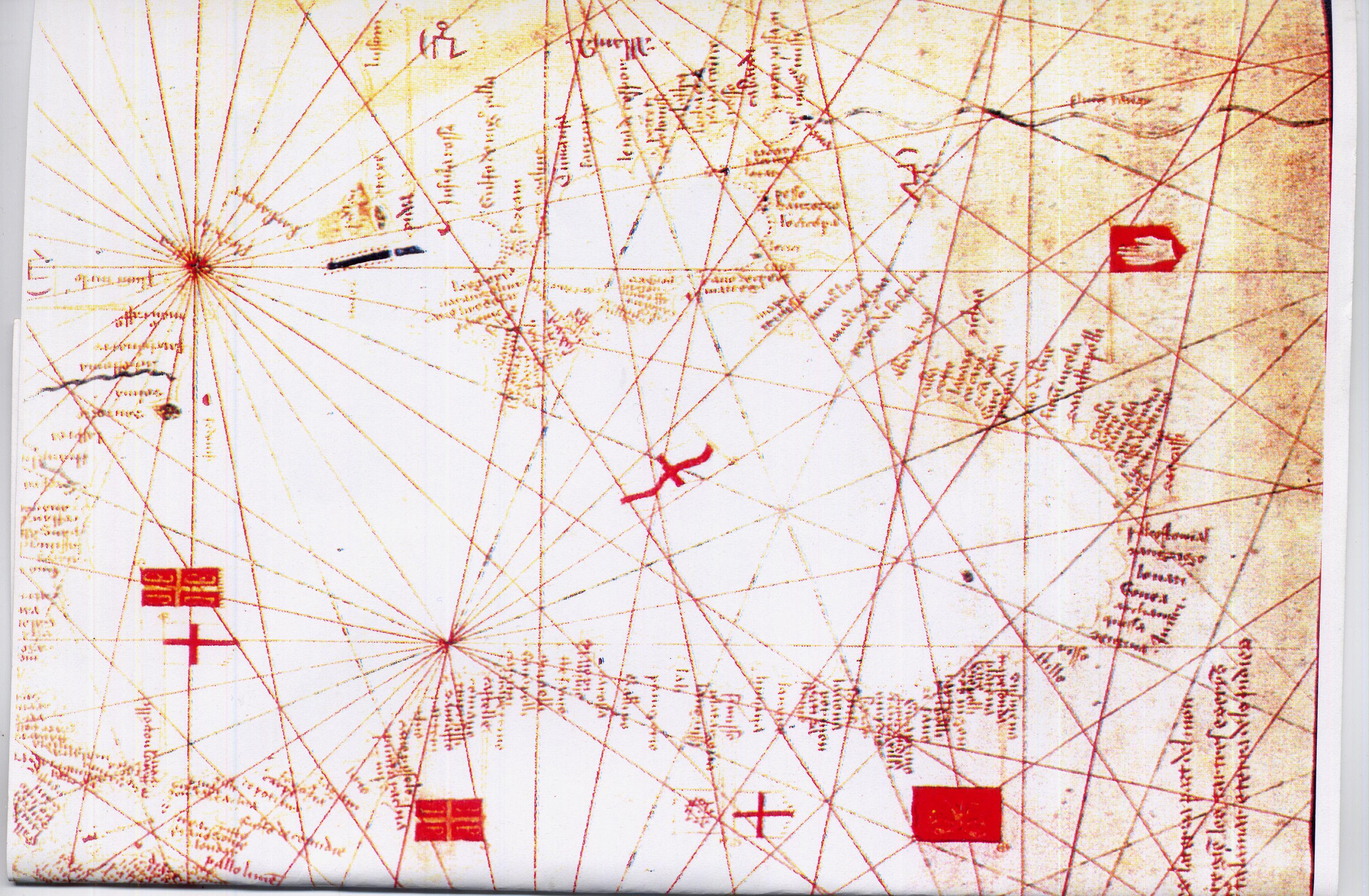 Gulermo Soleri, the fragment of the portolan made in 1385. with the red hend of Dadiani rullers of Mingrelia is indicated the city Sukhumi (Sauastopolli) - the capital city of Principality of Mingrelia (national library of Paris).